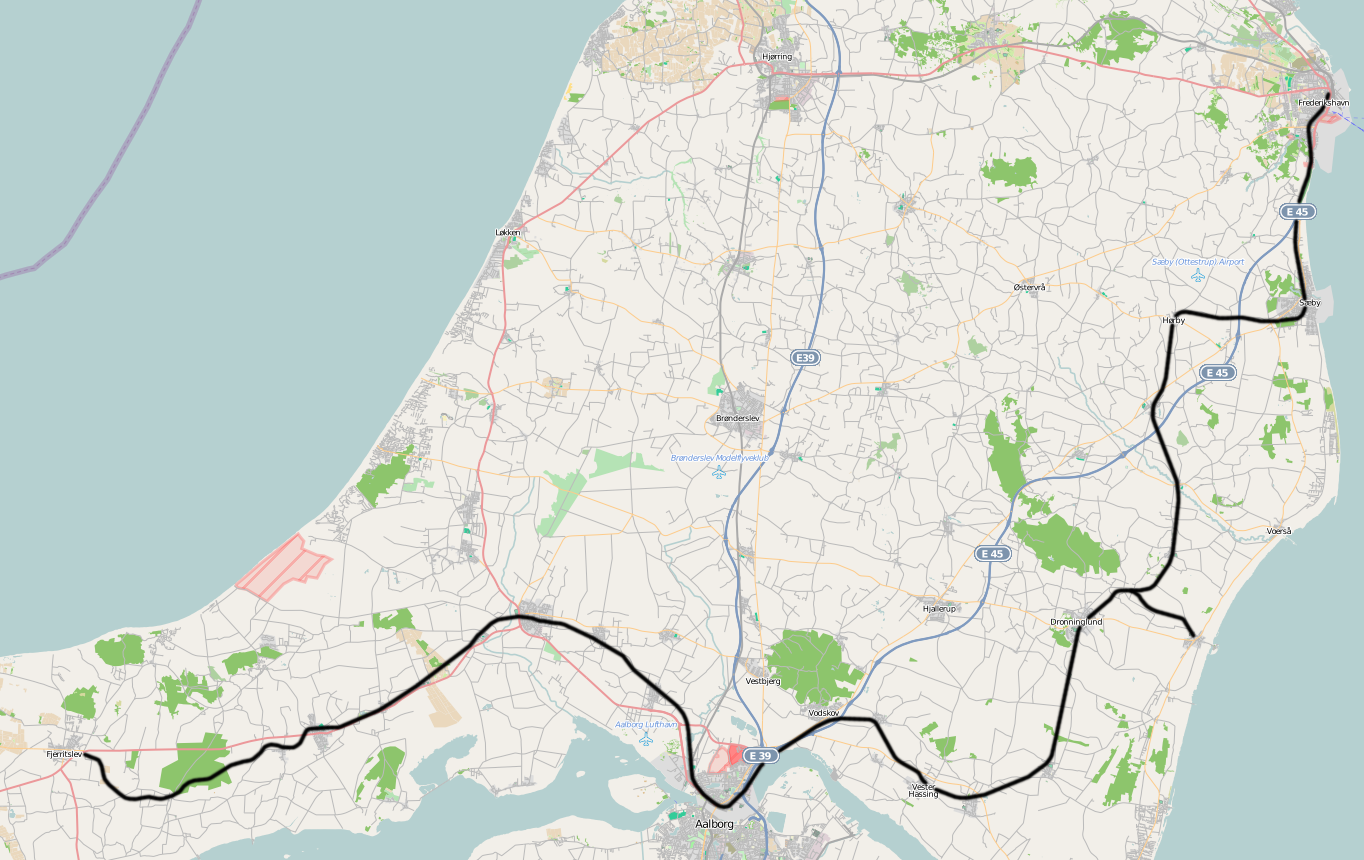 Railway line Fjerritslev - Frederikshavn